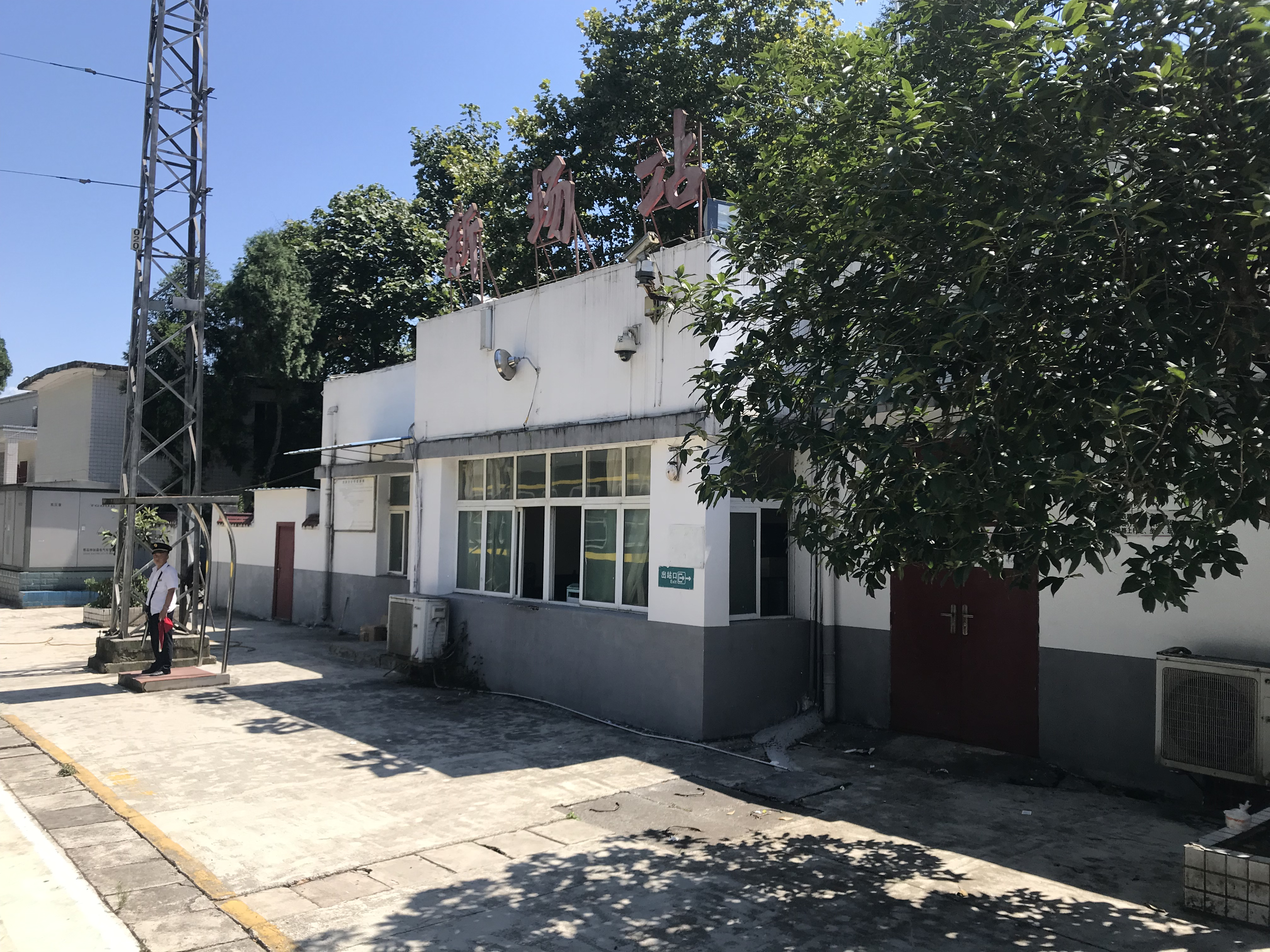 201908 Station Building of Xinchang